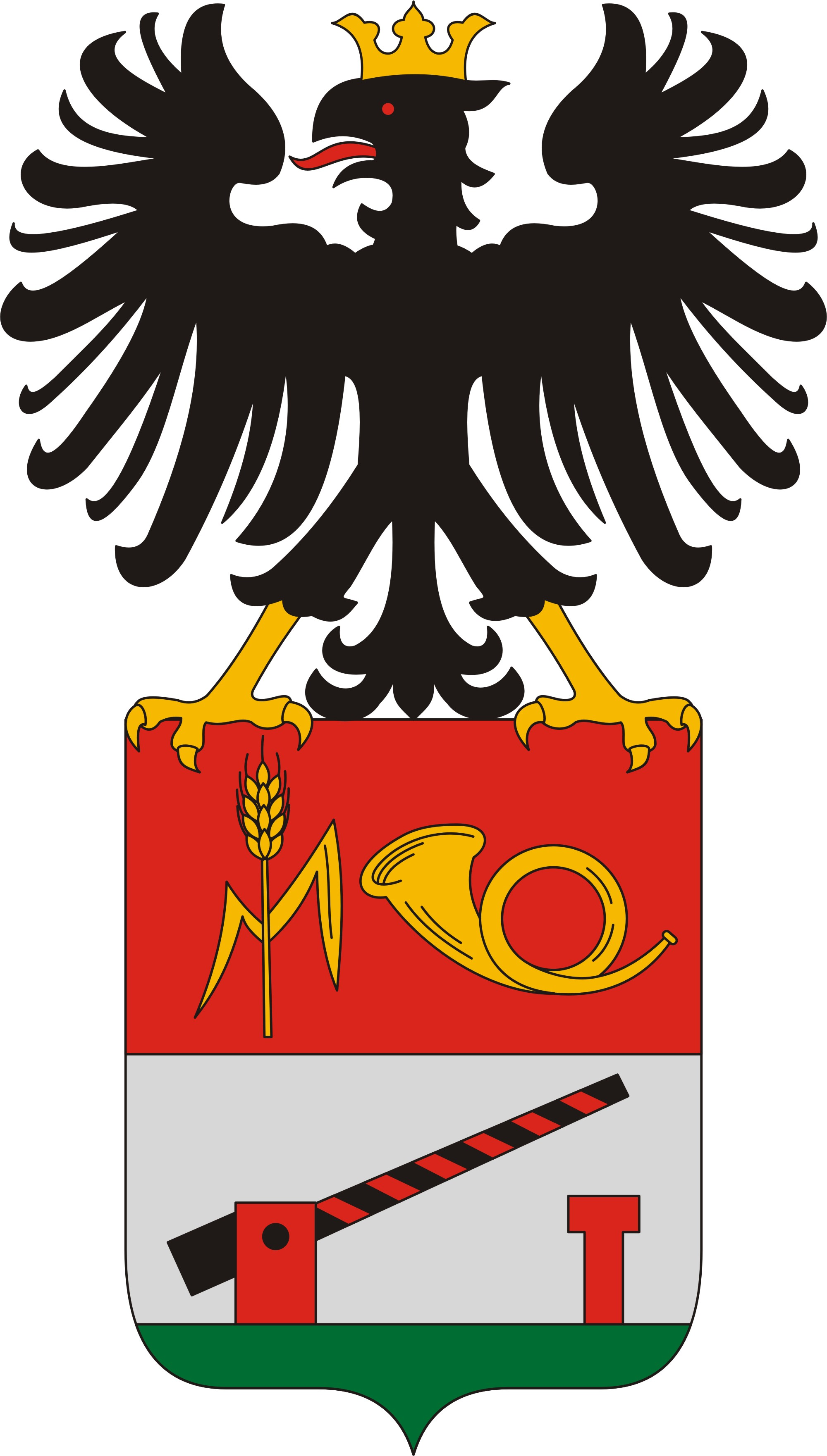 Coat of arms of Hidasnémeti, Hungary